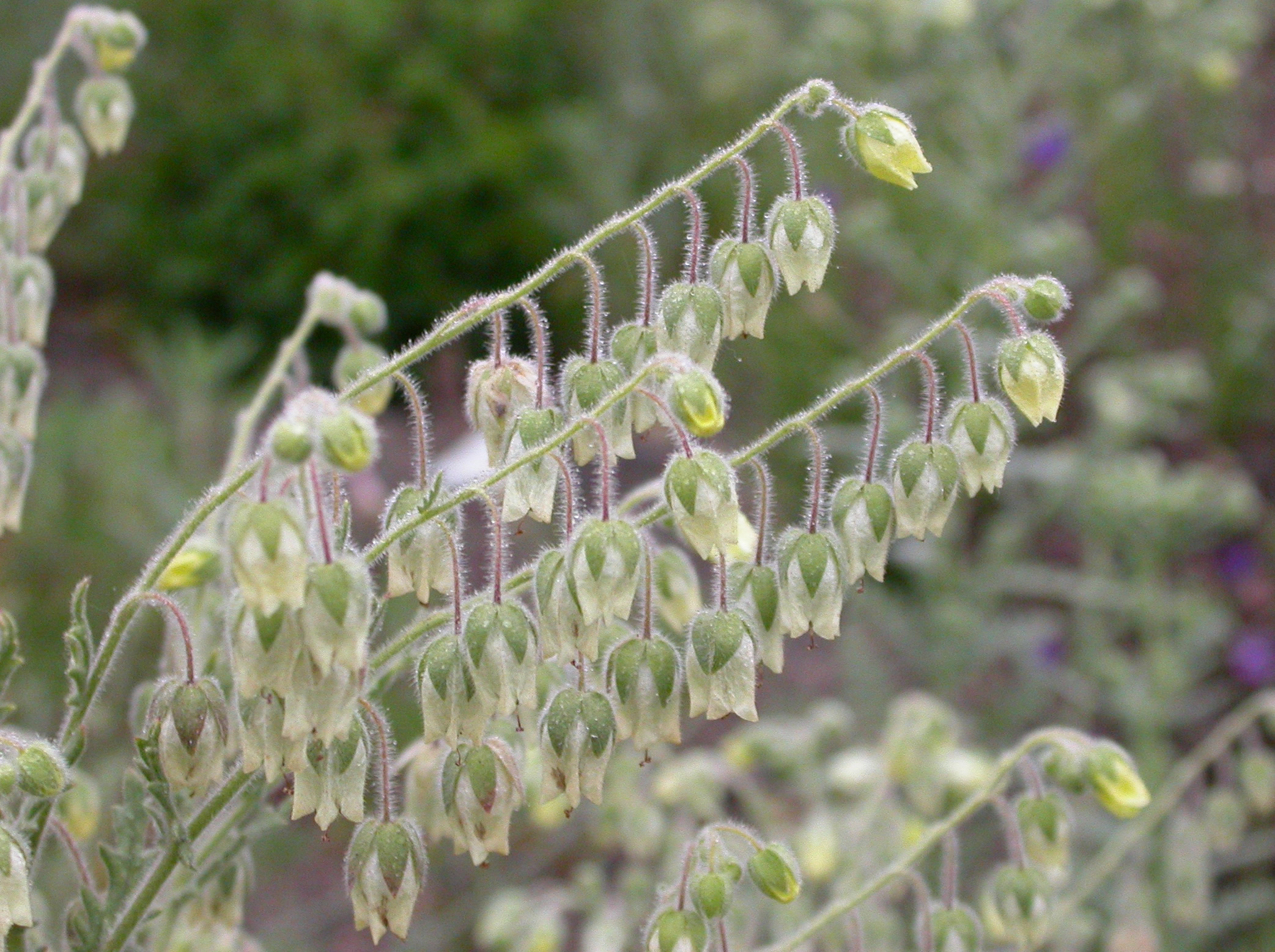 San Gabriel Mts. north of Rancho Cucamonga, CA